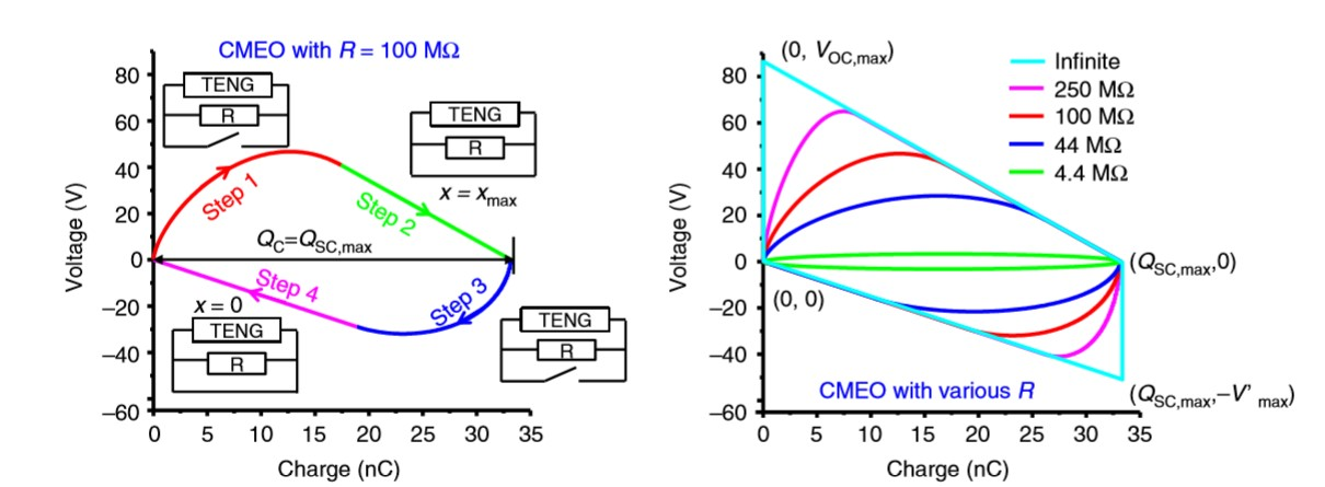 Cycles for maximized energy output (CMEO) of TENG